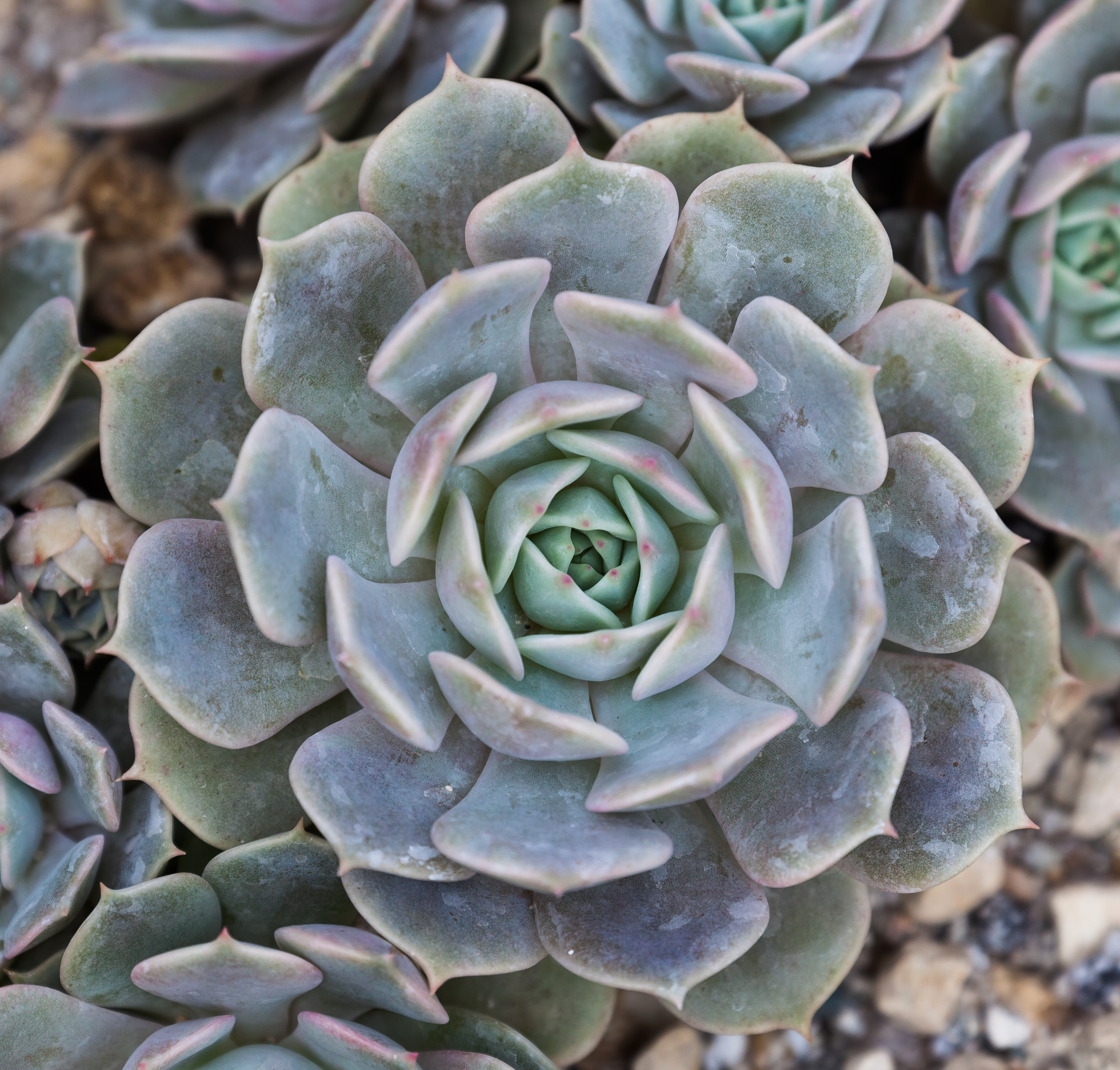 Echeveria elegans, Munich Botanical Garden, Germany